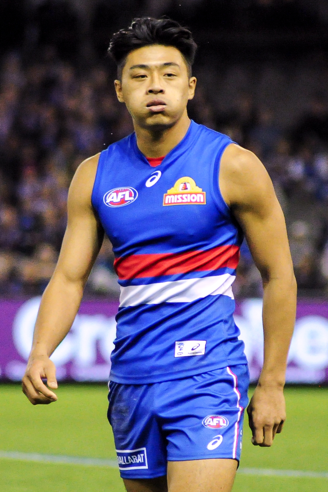 Lin Jong during the AFL round six match between the Western Bulldogs and Carlton on Friday, 27 April 2018 at Etihad Stadium in Melbourne, Victoria.